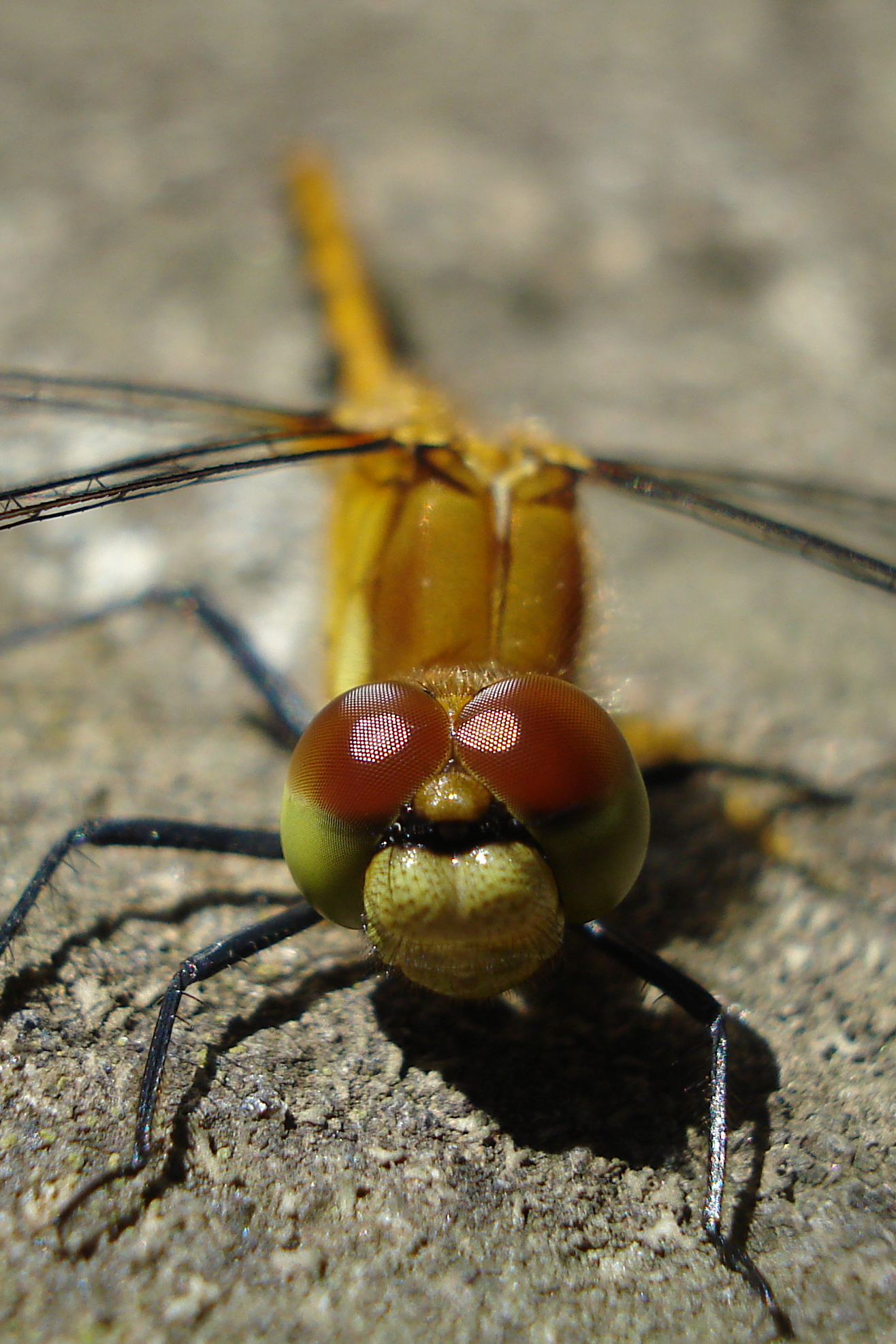 Female White-faced Meadowhawk (Sympetrum obtrusum) in Thunder Bay, Ontario, Canada.